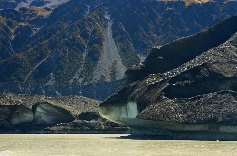 The terminal face of the Tasman Glacier at Lake Tasman